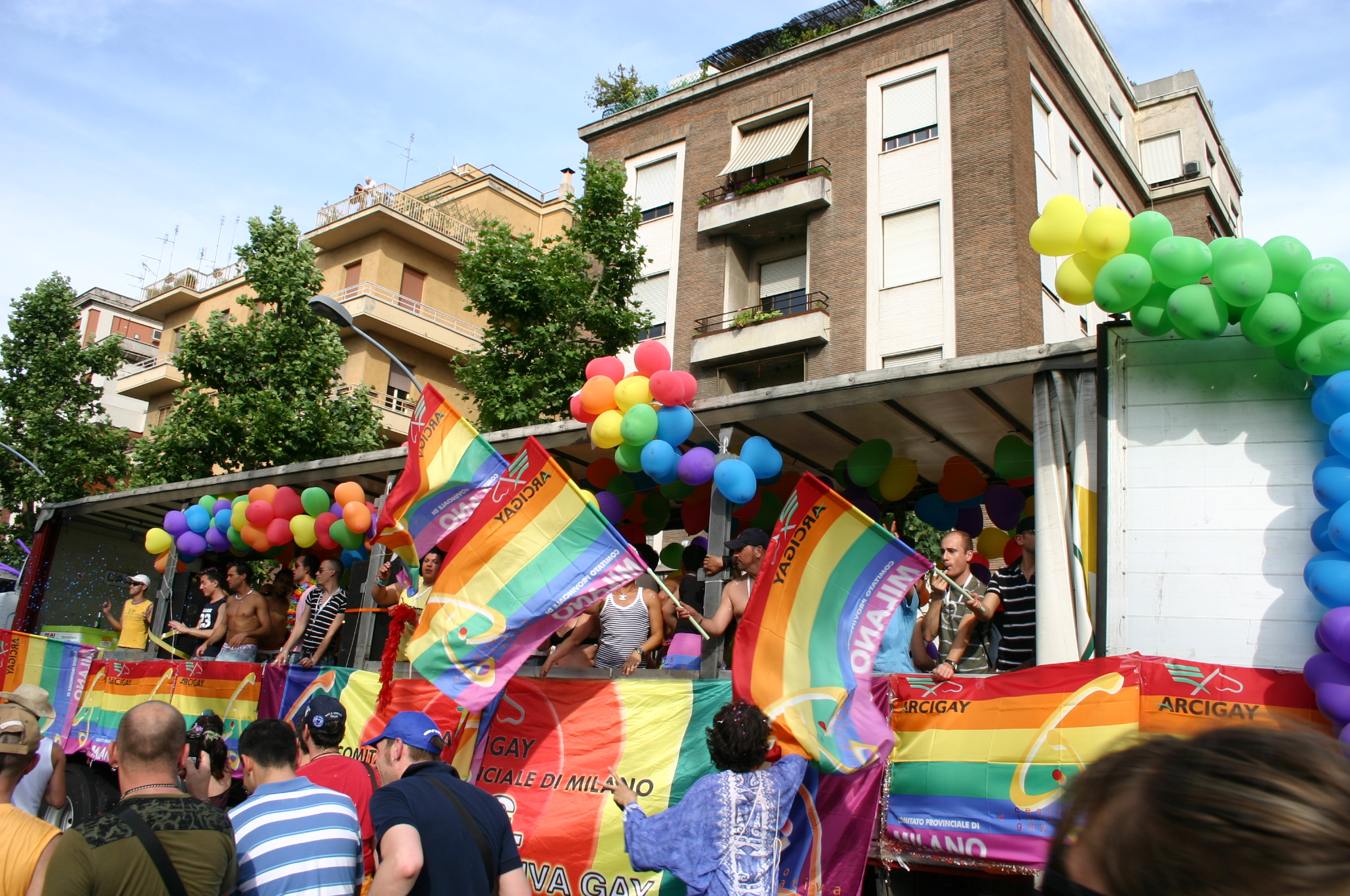 The float of Arcigay-Milan at the National Gay Pride march in Rome, on June 16 2007. Picture by Giovanni Dall'Orto.